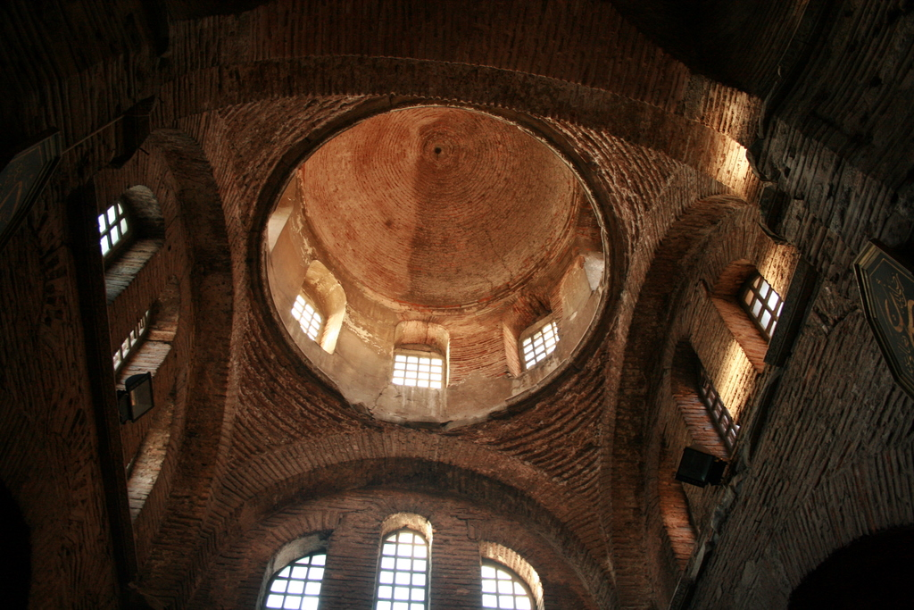 Fenari Isa Mosque Northern Dome